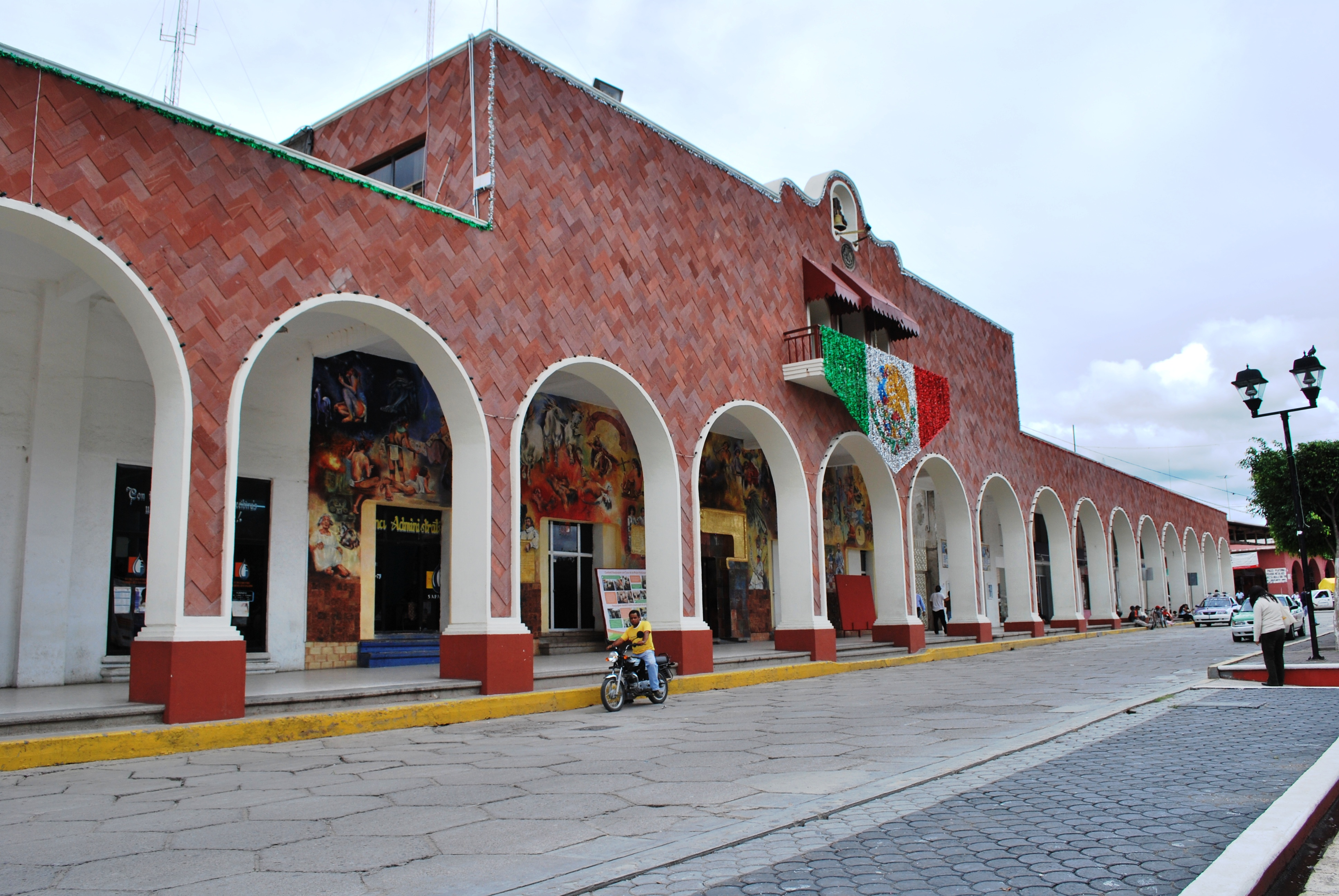 Facade of the municipal palace of Huajuapan de León, Oaxaca